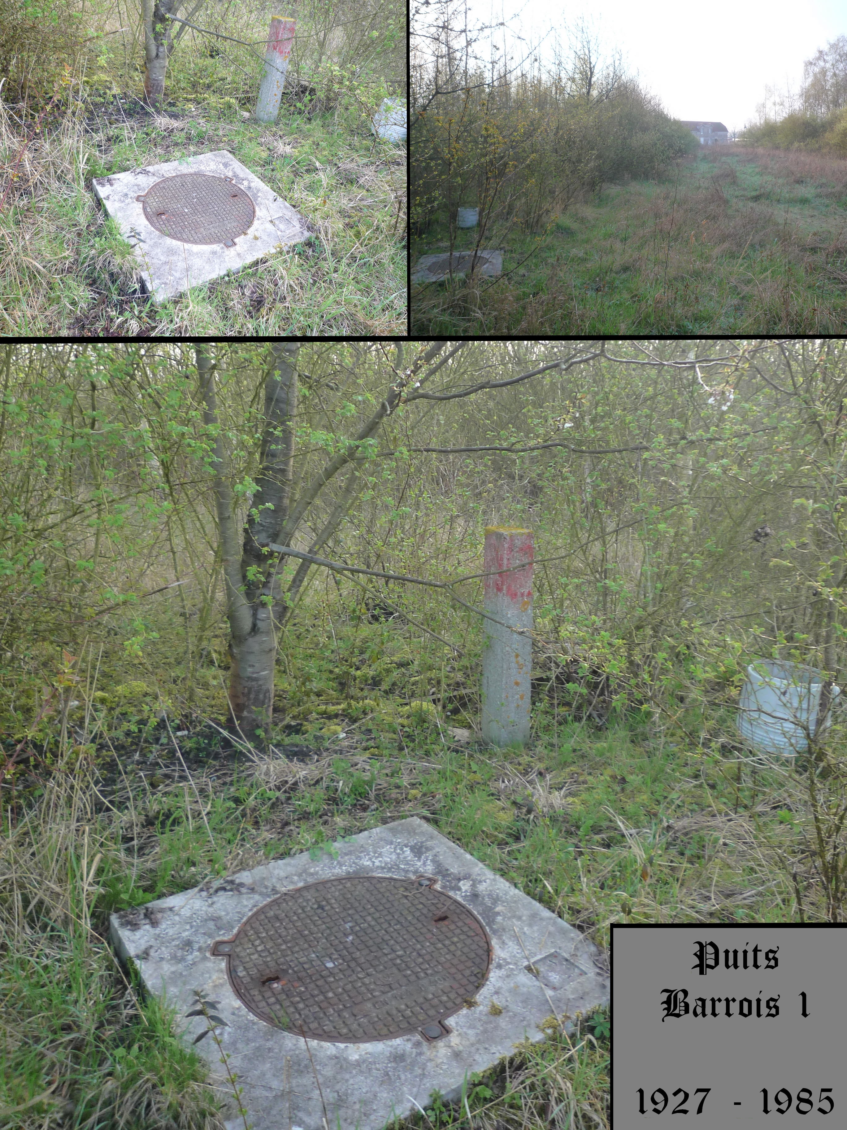 Pit Barrois #1 at Pecquencourt, France.